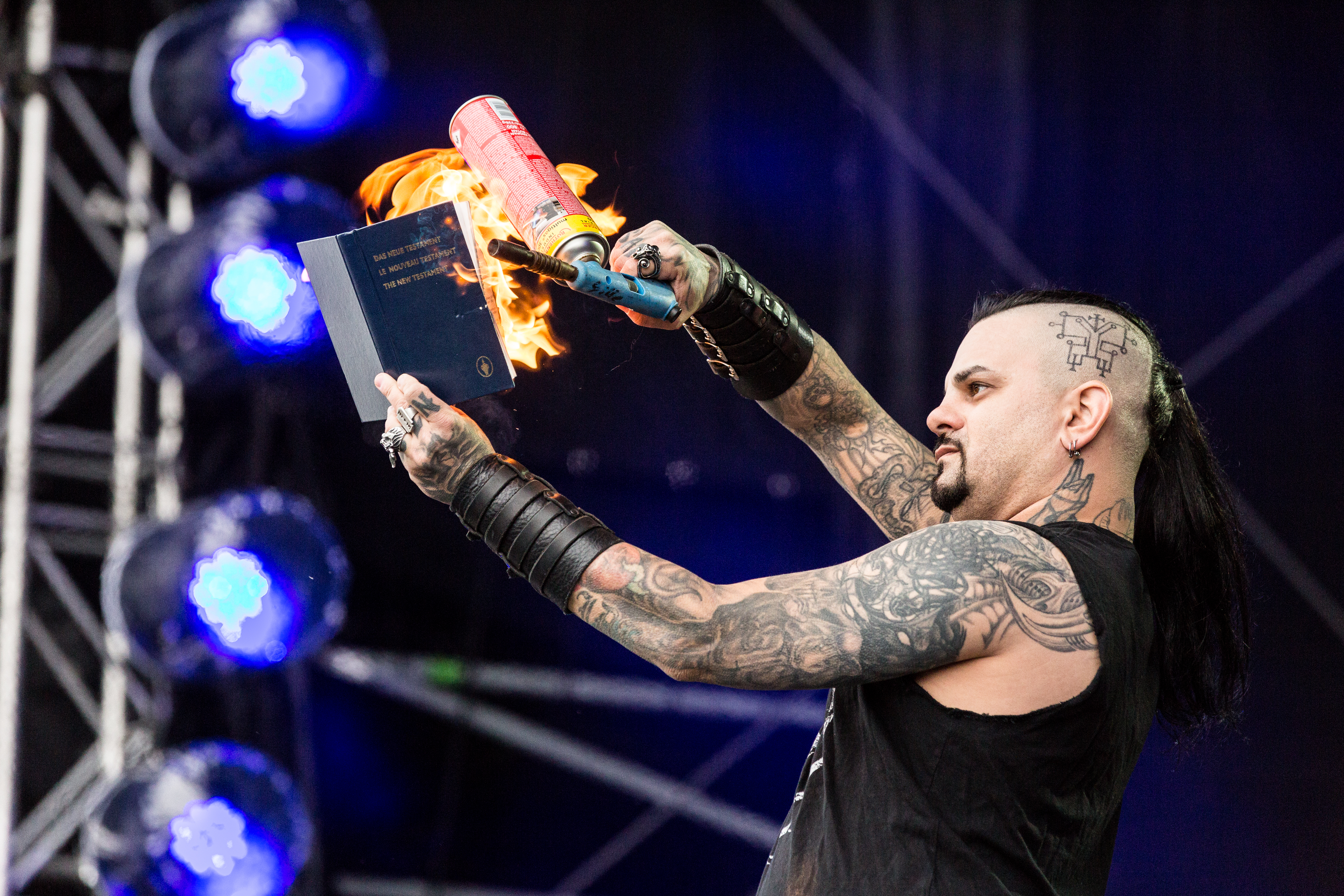 The American death metal band Vital Remains at the Party.San Metal Open Air 2017 in Obermehler-Schlotheim/Germany.